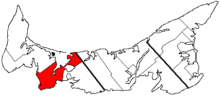 Adapted from existing Prince Edward Island election results maps to depict a specific electoral district.